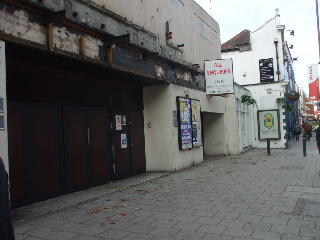 Hammersmith Palais, W6. Due to soon be demolished, the Palais hosted its last gig on 1 April 2007.